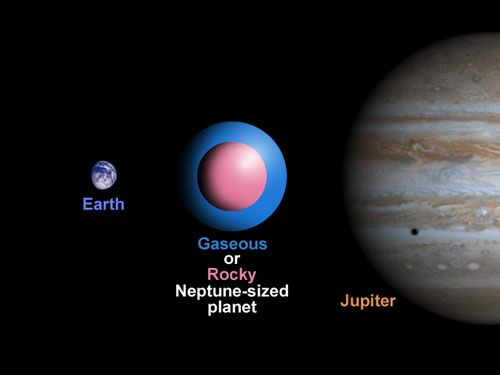 exoneptune